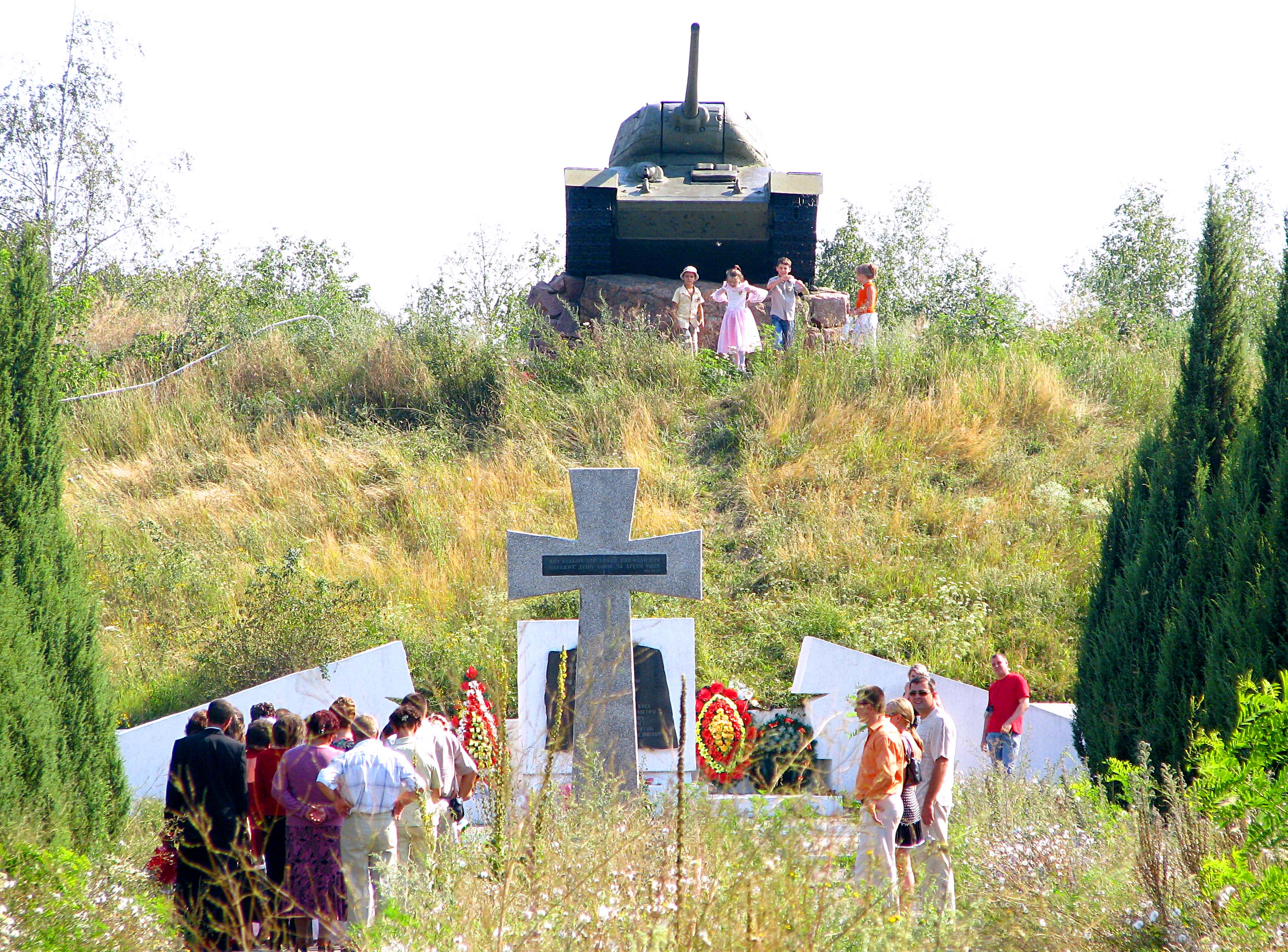 курган СЛАВЫ